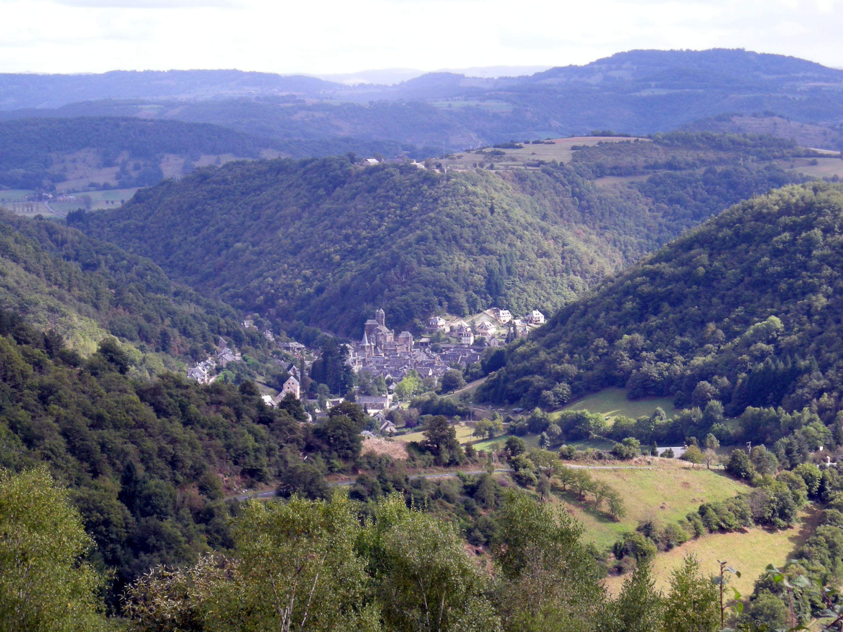 Estaing (Aveyron)